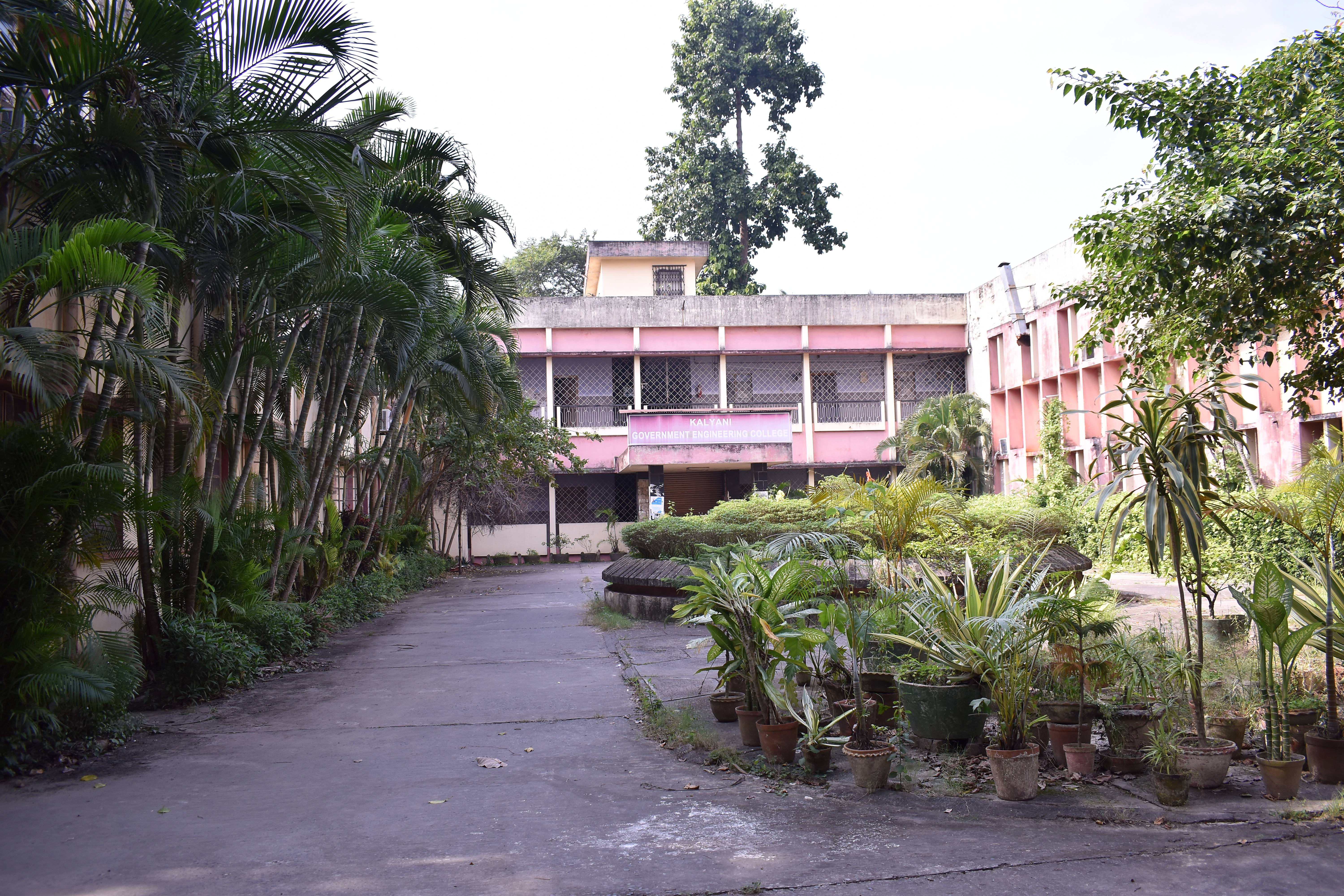 Kalyani Govt. Engineering College, inside the Kalyani university campus, Nadia